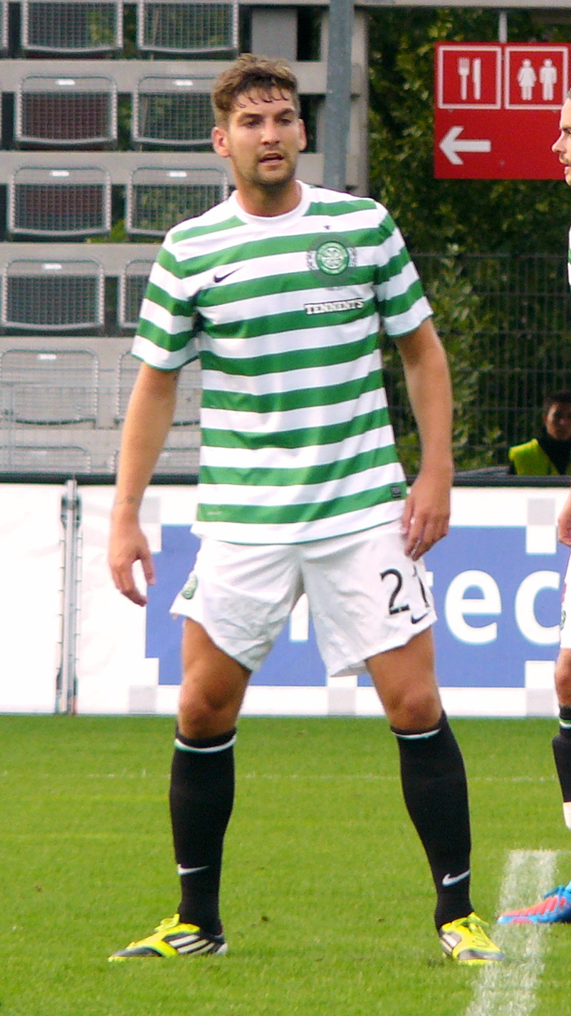 Charlie Mulgrew, Scottish footballer